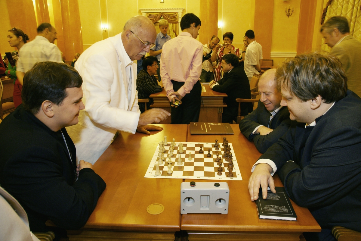 Odessa, 3 September 2010. "Great Game of Great People". Photo by Sergey Gevelyuk.